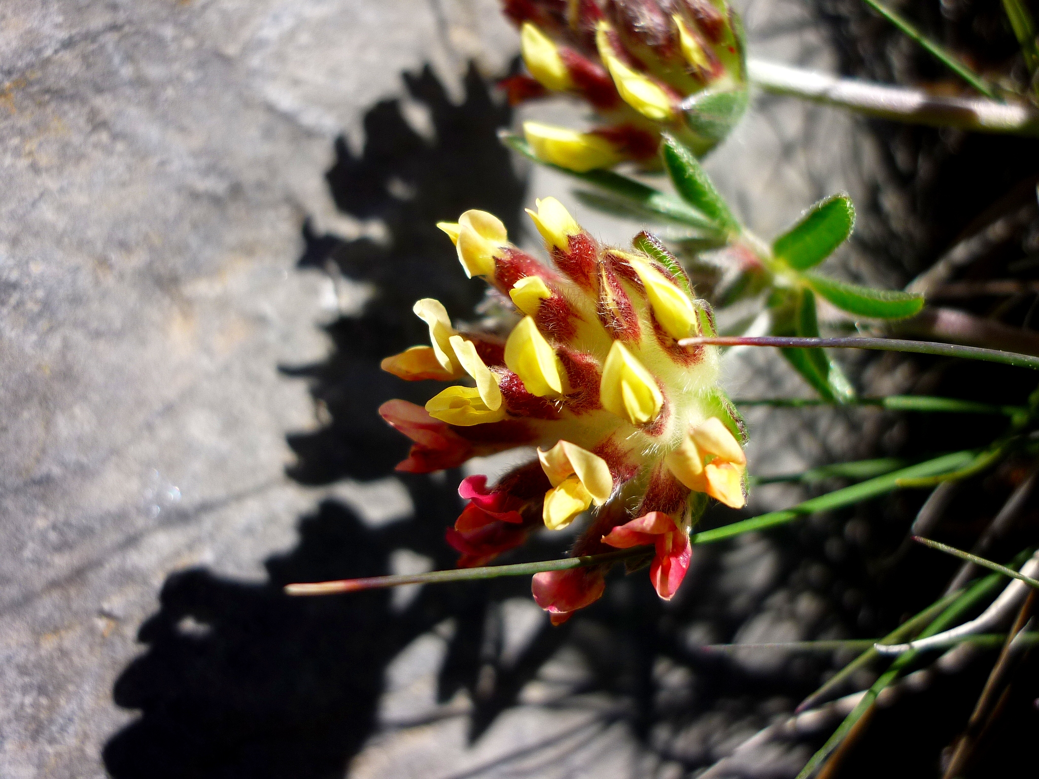 Anthyllis vulneraria. Near Roc de Galliner, in l'Alzina d'Alinyà (Alt Urgell-Catalunya). To 1.460 m. altitude